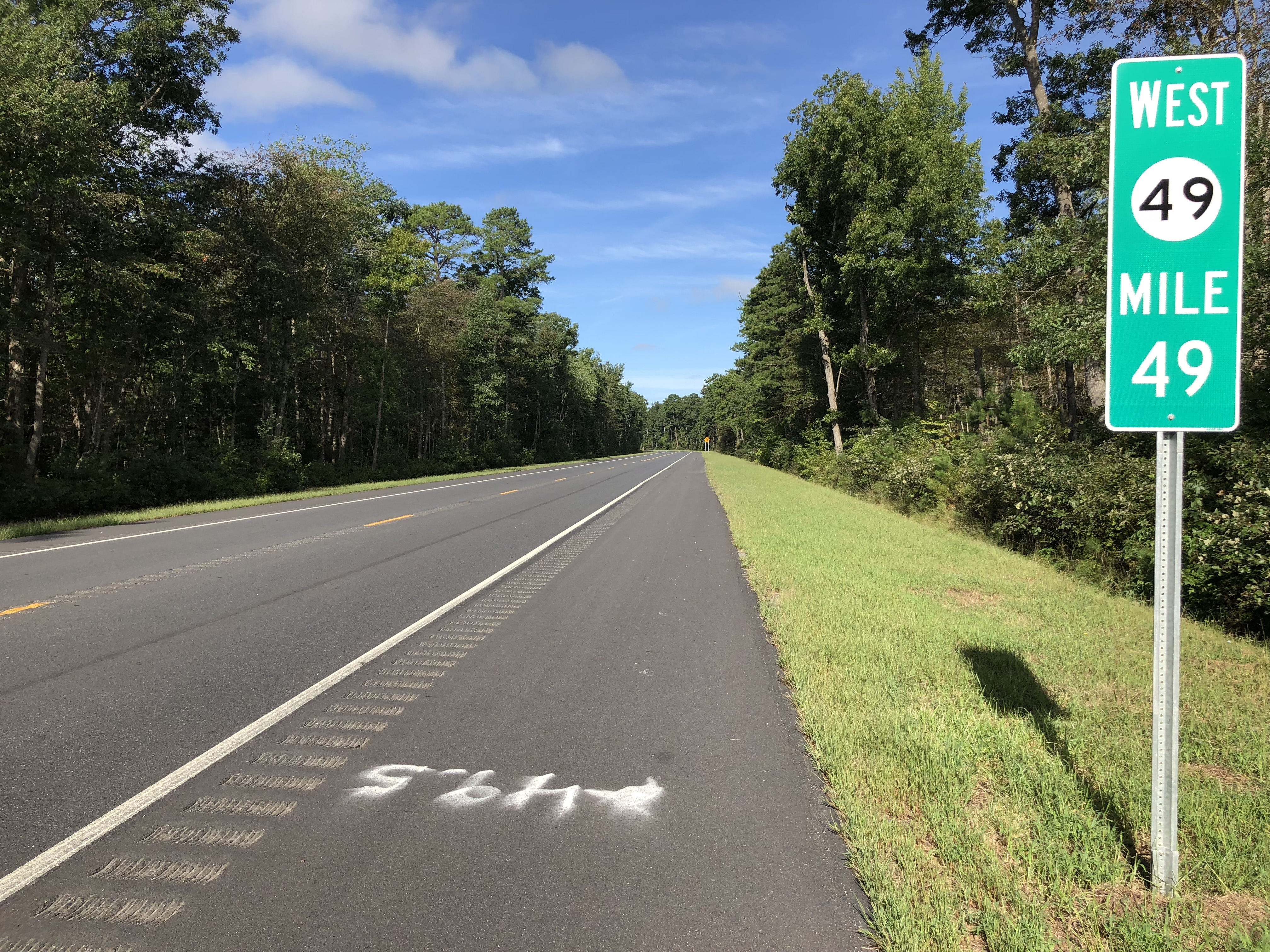 View west along New Jersey State Route 49 just west of Atlantic County Route 649 (Aetna Avenue) in Estell Manor, Atlantic County, New Jersey